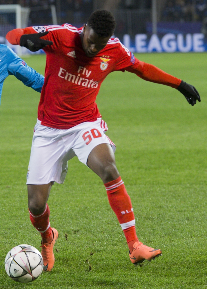 Nélson Semedo